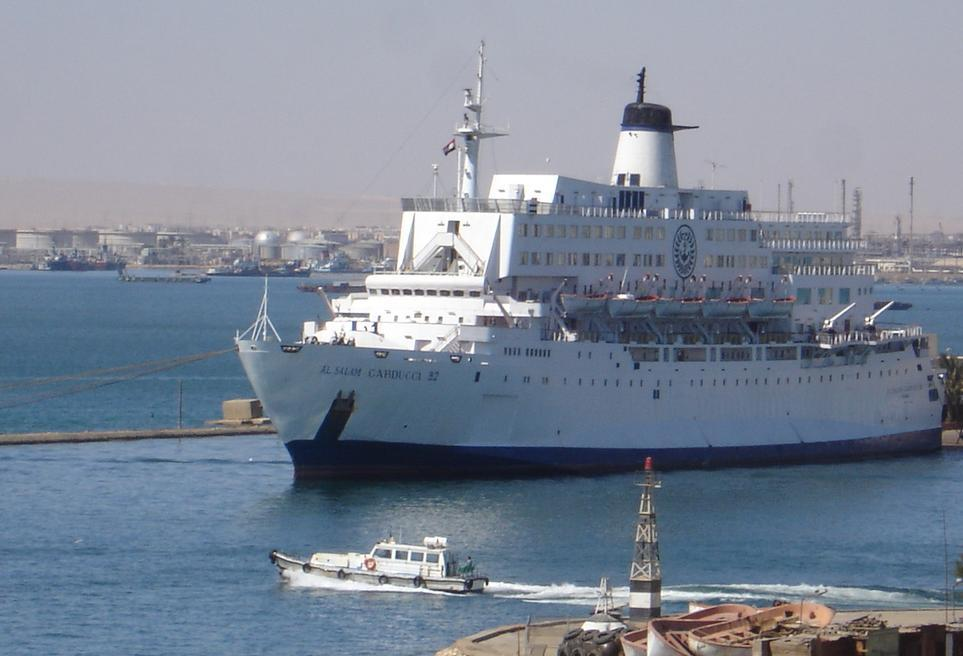 Al Salam Carducci 82 docked at Suez port, Egypt. March 2006. (Author: Amr Fayez) Type:Passenger / Ro-Ro Cargo Ship IMO number: 7000982 Callsign: 3FDK9